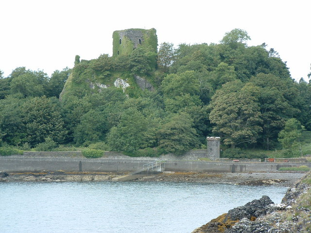 Dunollie Castle. Dunollie from the seaward side. The castle is accessed by a steep muddy track, but good views from the top. There's a grassy courtyard inside the castle.